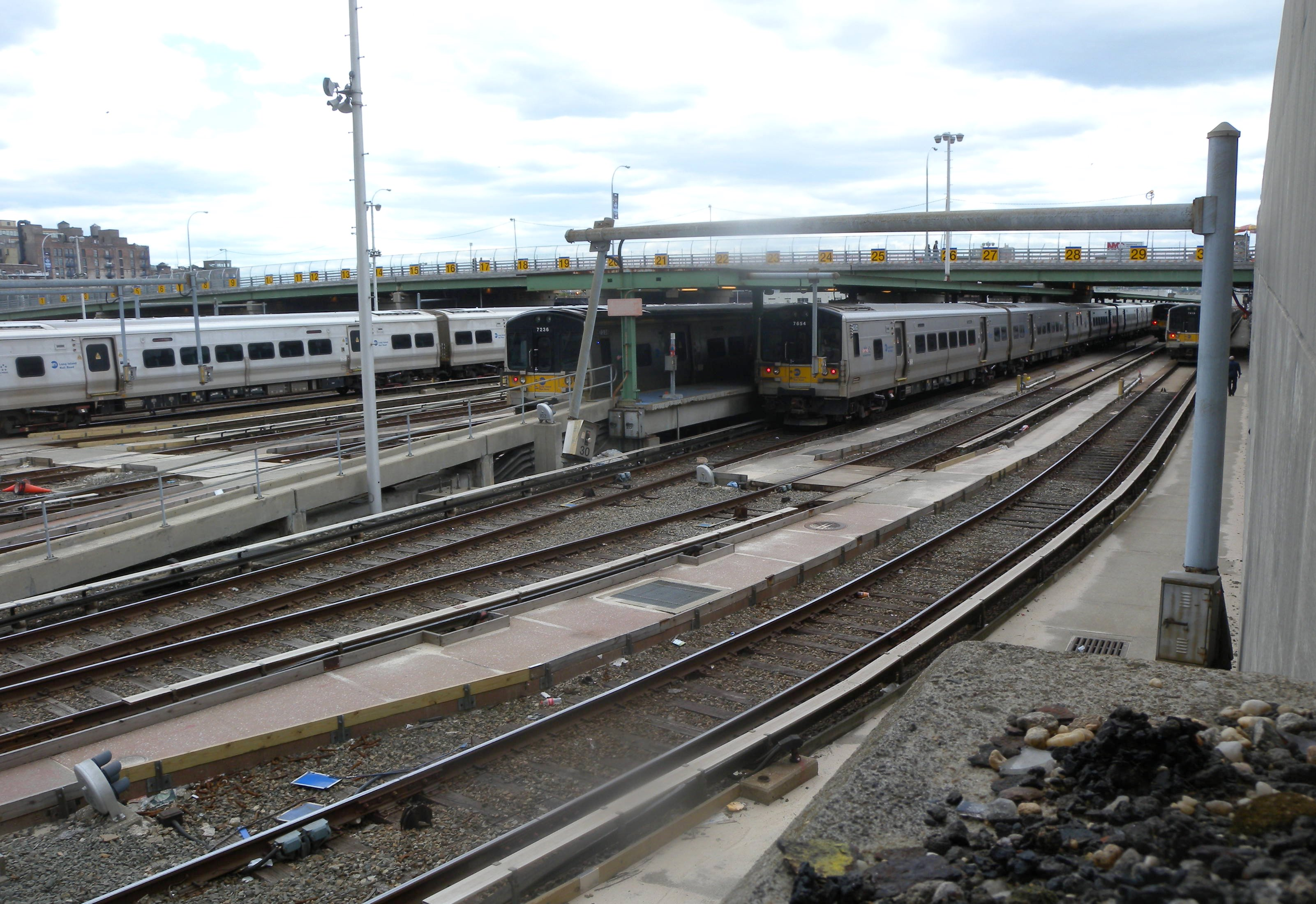 Looking west from low in the fence line at West Side Yard on a mostly cloudy midday. See File:West Side Yard 33d St jeh.jpg for view from further east.